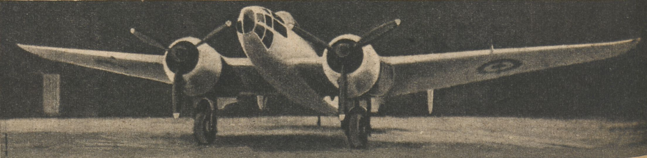 Bloch MB.175 of the French Navy in 1946